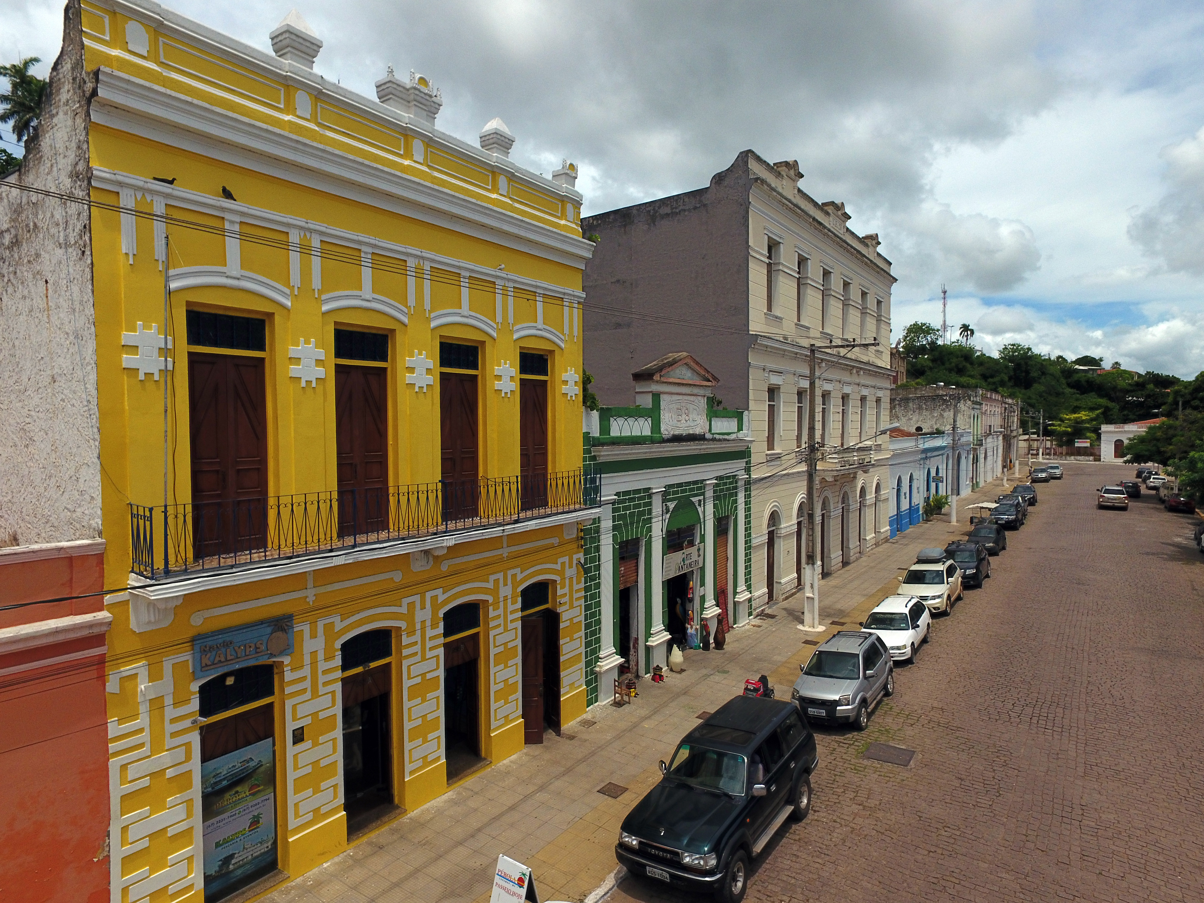 Historic buildings dating from the early 20th century, along Rua Manoel Cavassa in the old riverport (Porto Geral). Corumbá, Mato Grosso do Sul, Brazil.